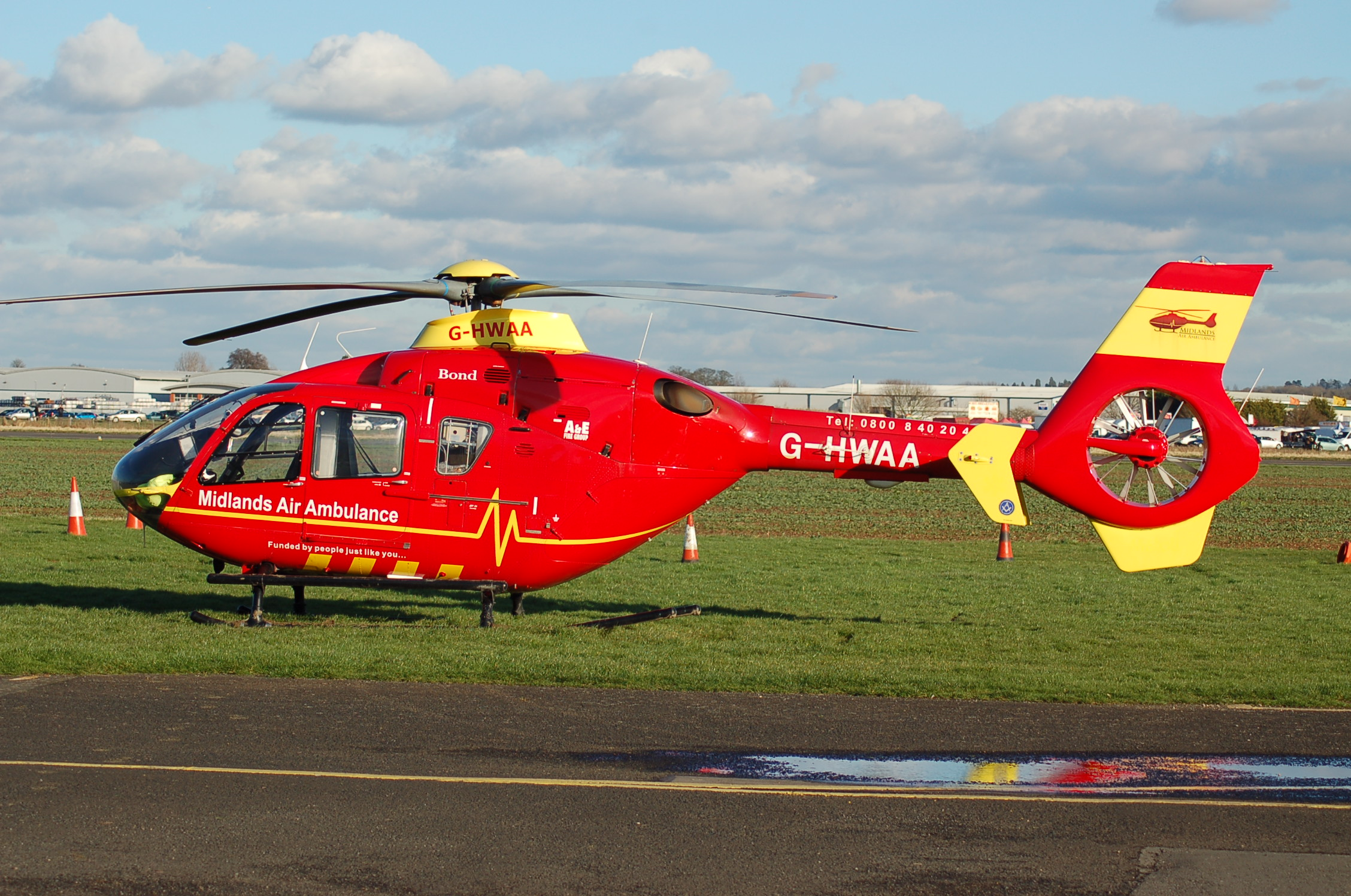 Eurocopter EC.135 of Bond Air Services/Midlands Air Ambulance at Wellesbourne-Mountford,Warks.,02/02/13.